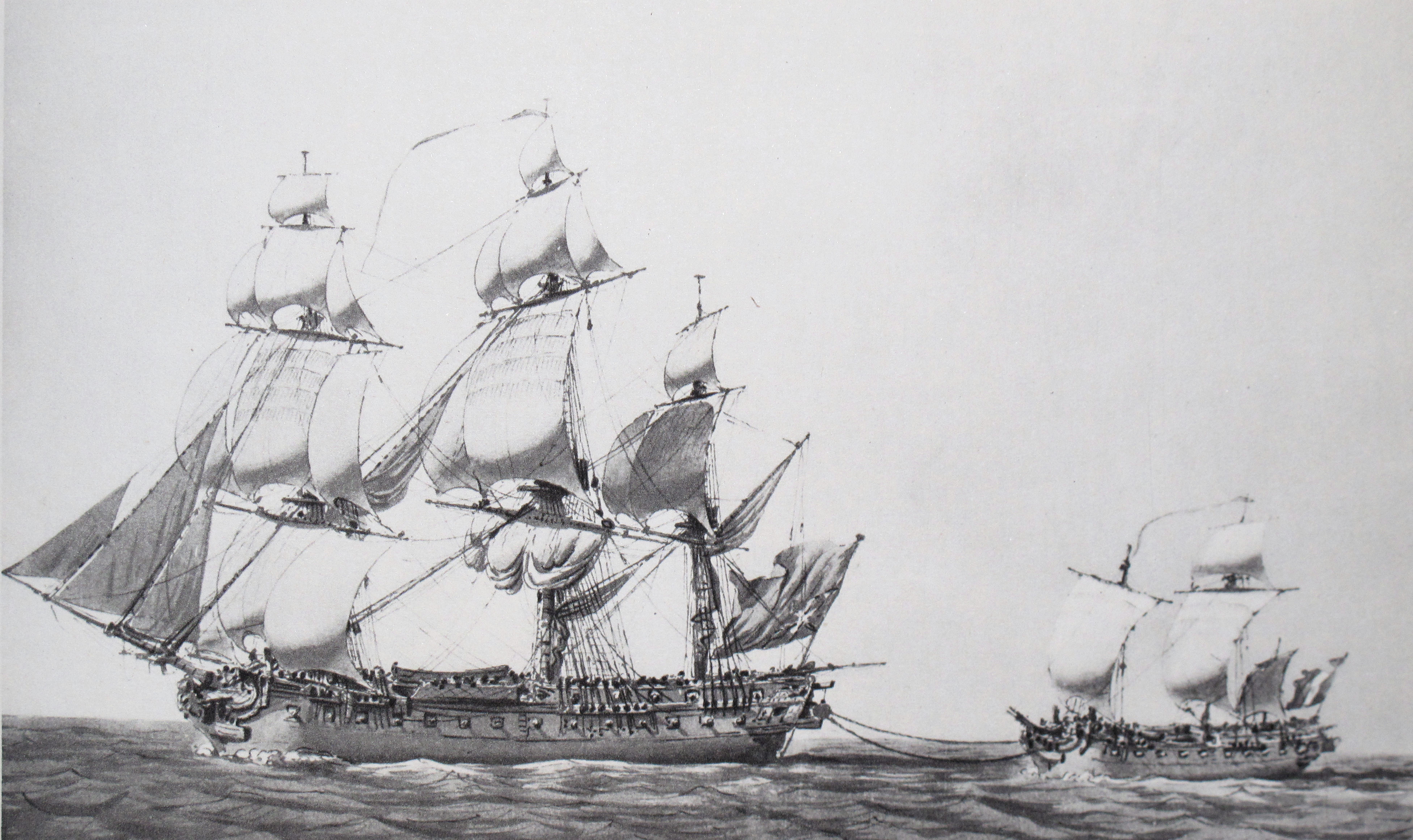 French corvette Bayonnaise boarding HMS Ambuscade during the Action of 14 December 1798 Histoire de la Marine française illustrée labels the drawing as "Captured English ships towing the privateer that has taken her", indicating that the drawing might not represent the Action of 14 December 1798 at all.